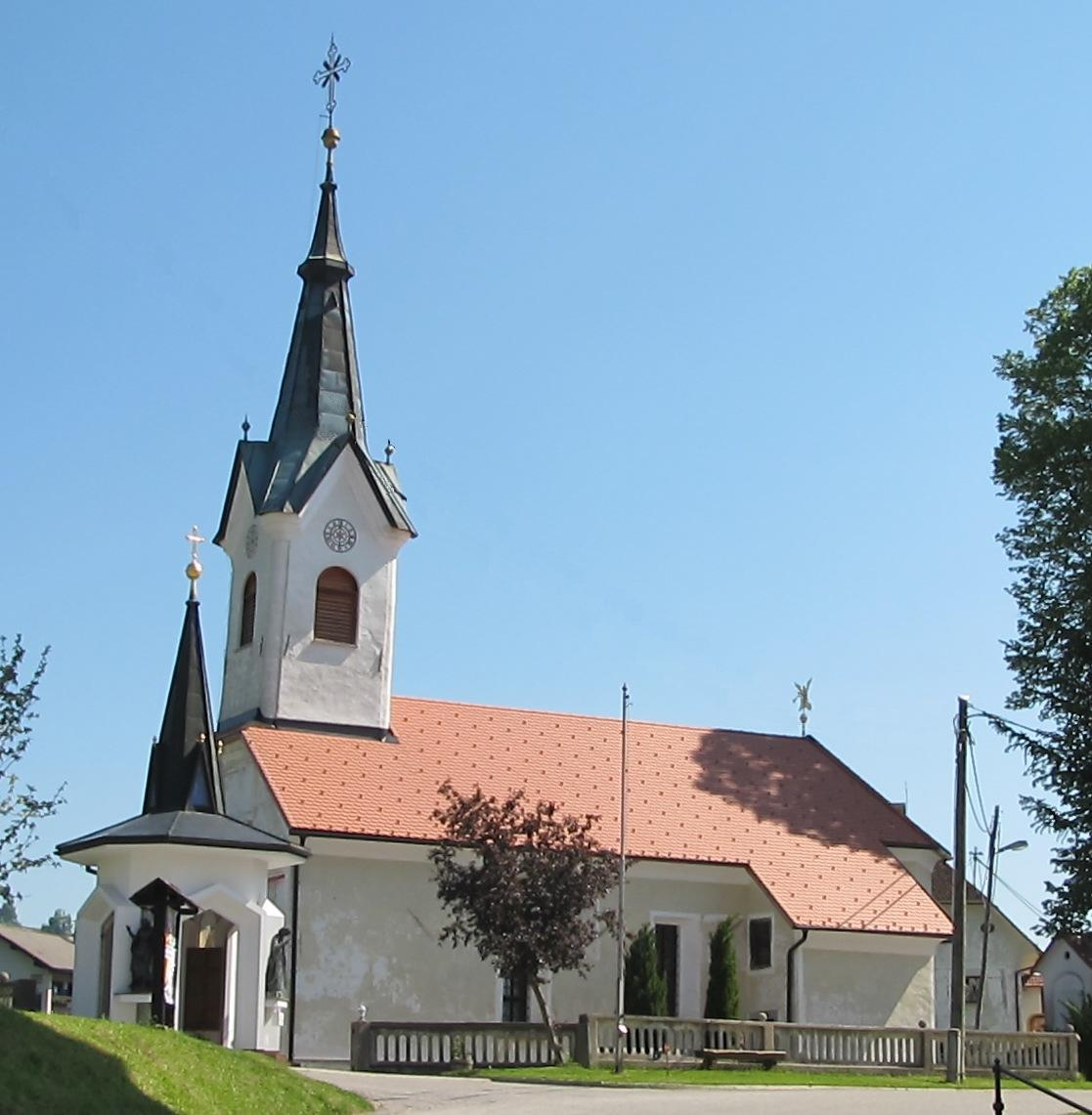 Saint Josse's Church in Šentjošt nad Horjulom, Municipality of Dobrova–Polhov Gradec, Slovenia